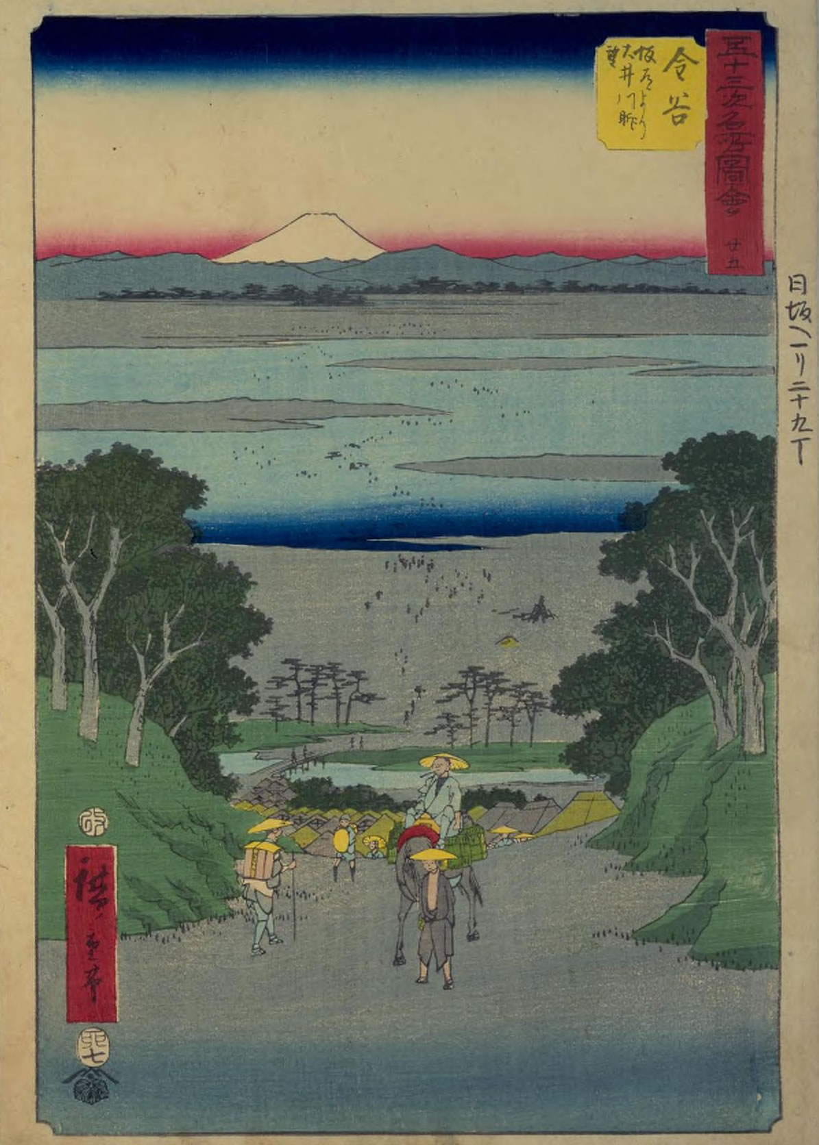 "Famous Places of the Fifty-three Stations of the Tōkaidō (GojūSanTsugi-MeishoZu'e), No. 25, Kanaya" : View of the Ôi River from the Uphill Road.